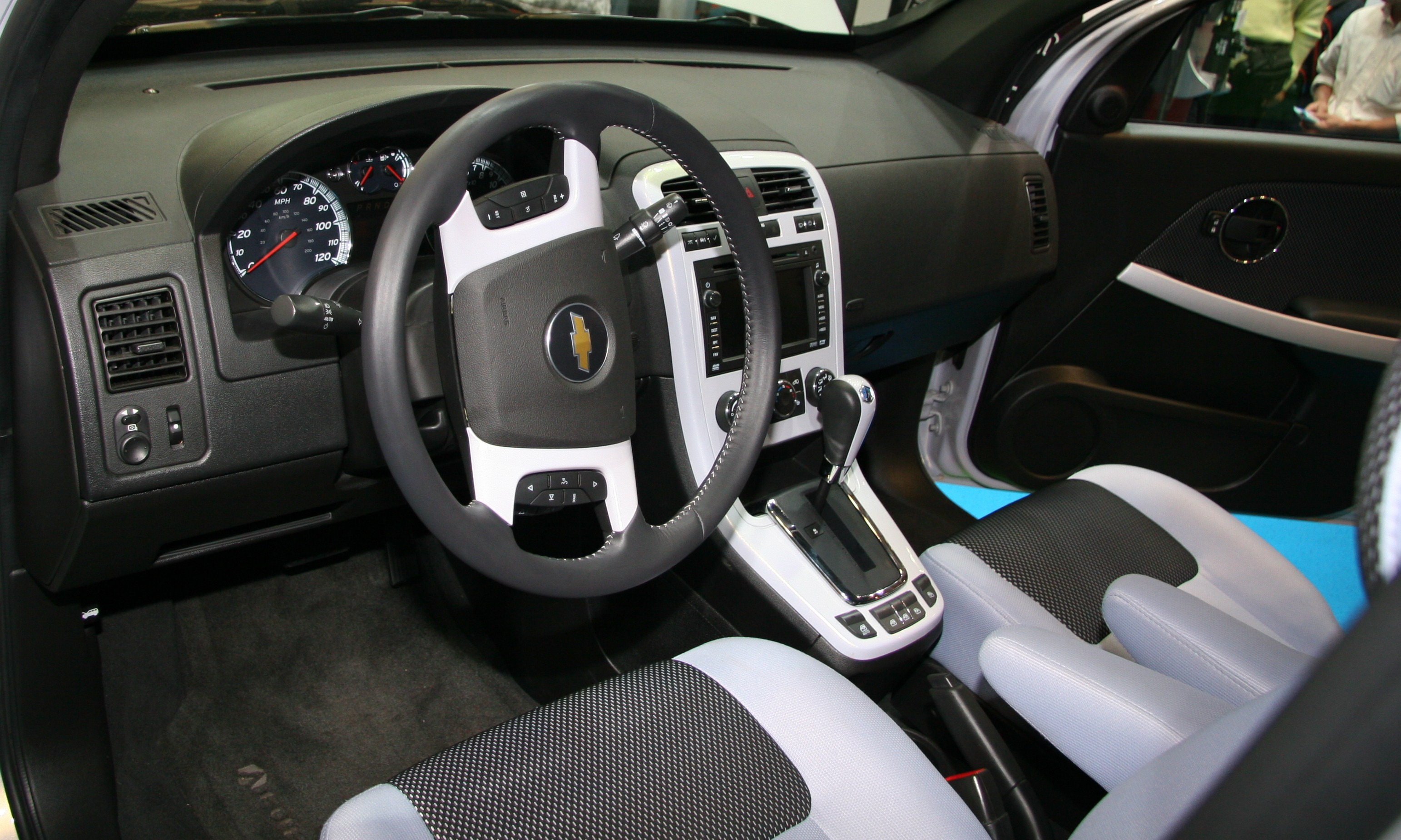 Chevrolet Equinox Fuel Cell